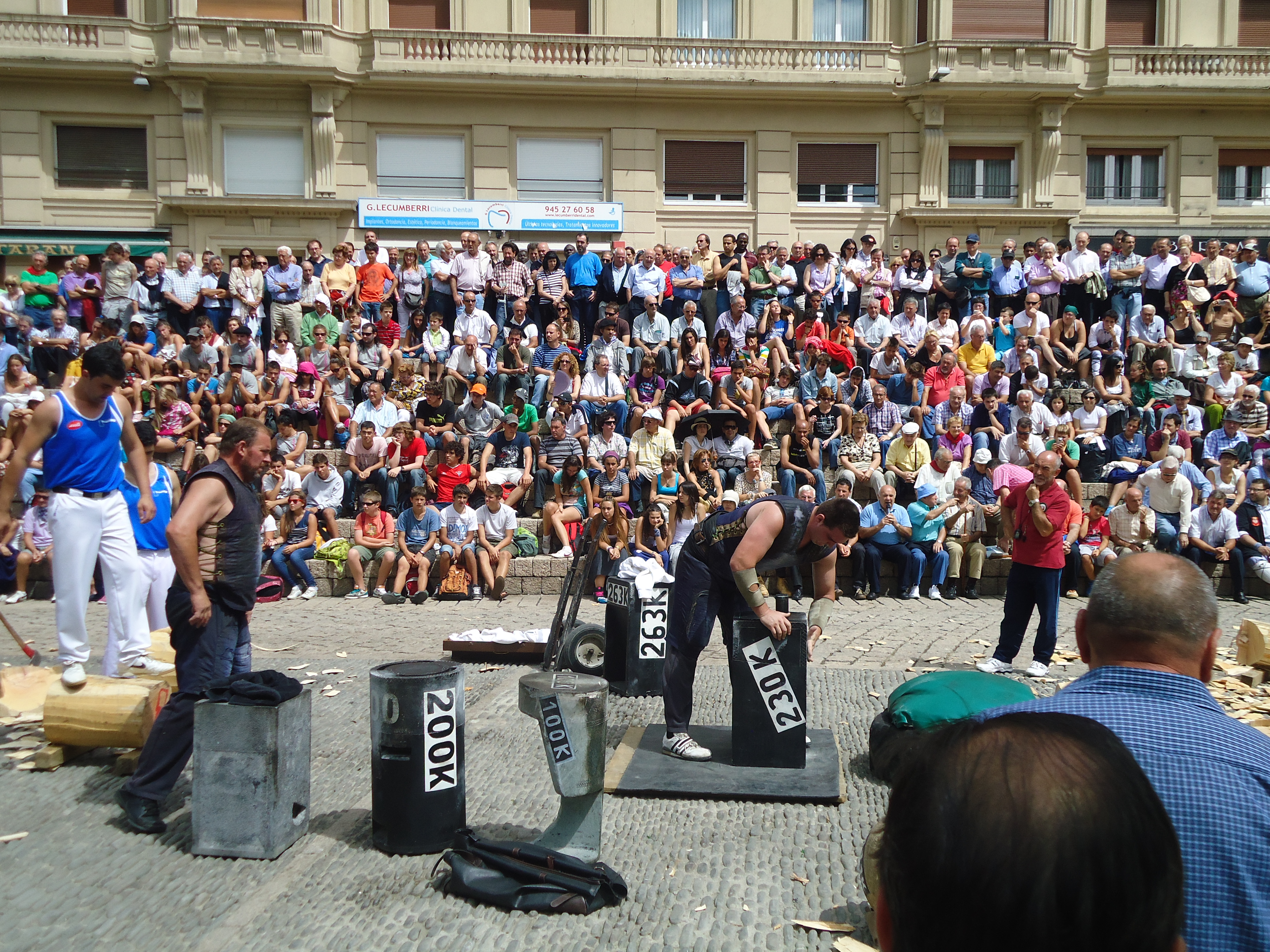 Harrijasotzaileak(stone lifters) in Vitoria-Gasteiz (Araba/Álava, Basque Country)